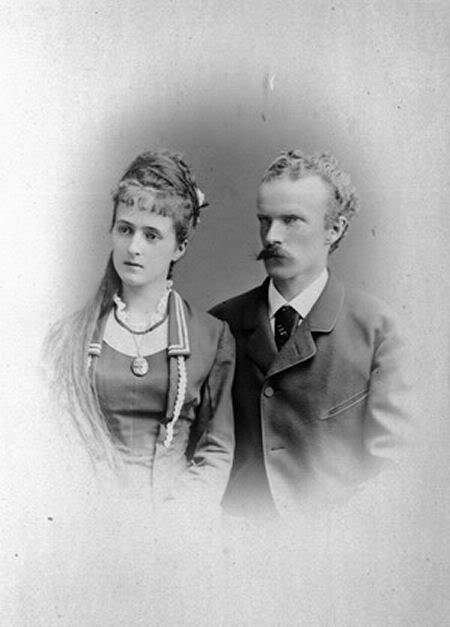 Karl Theodor, Duke in Bavaria with his second wife Infanta Maria Josepha of Portugal